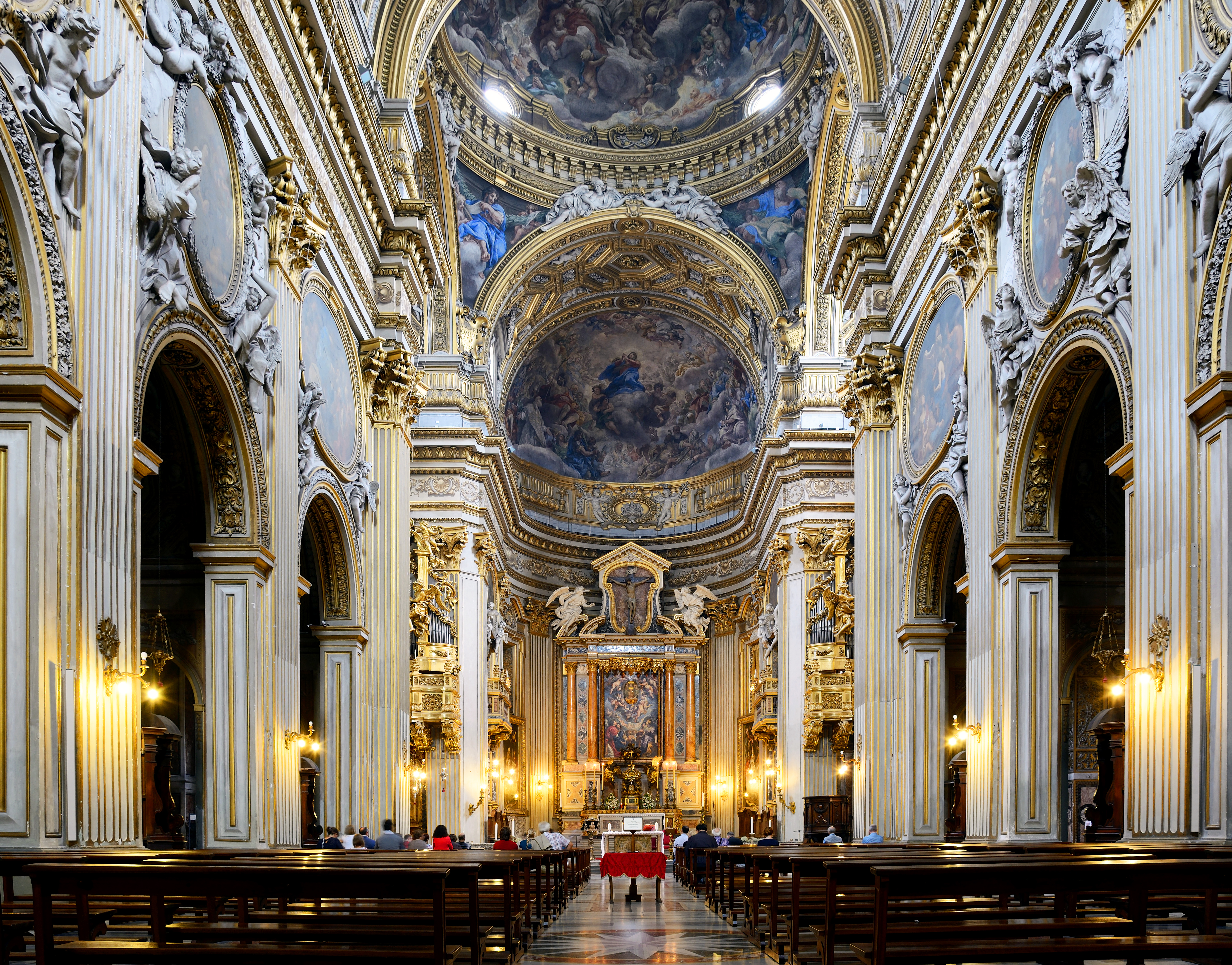 Santa Maria in Vallicella (Rome) - Interior